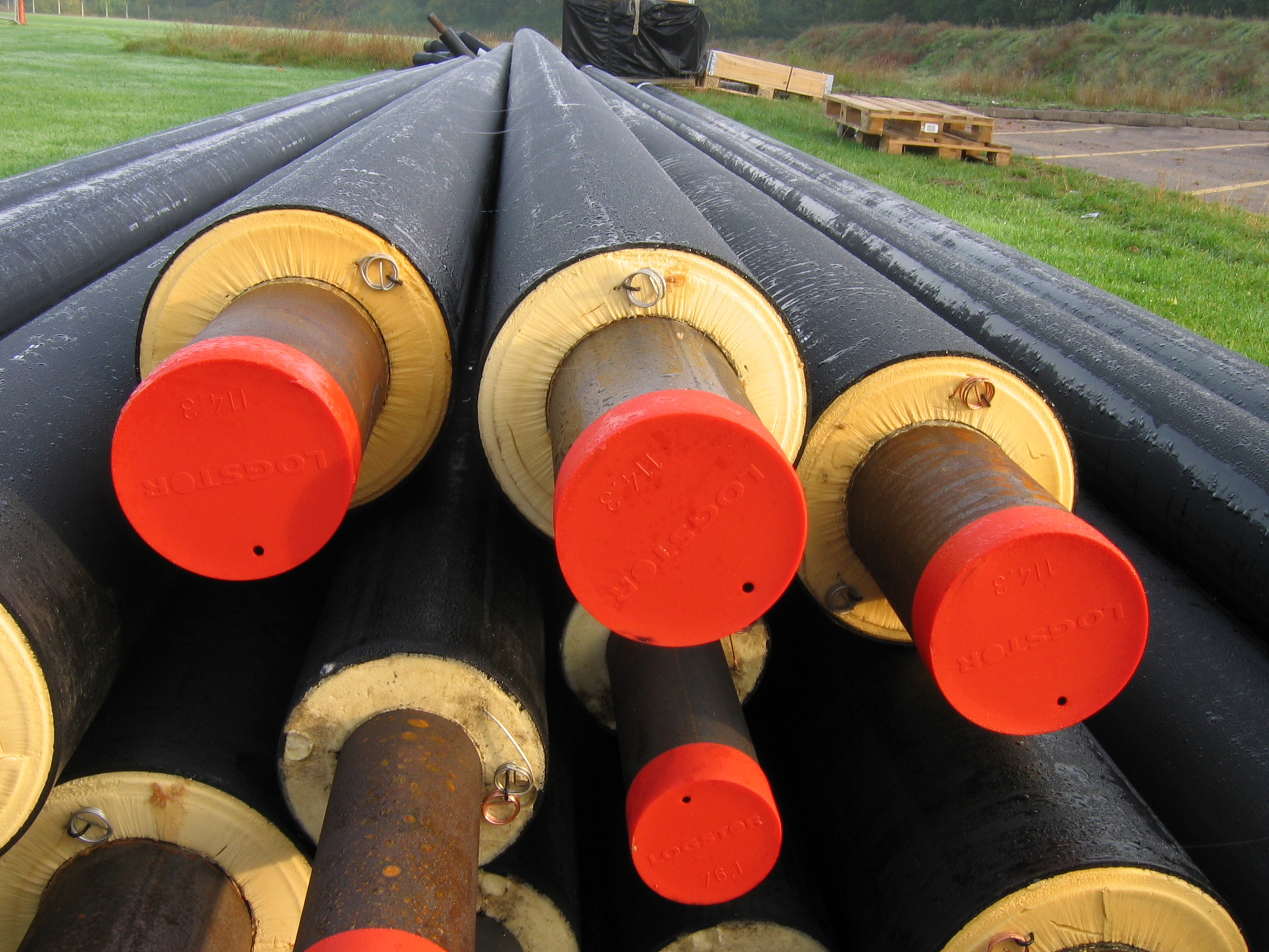 brand-new preinsulated bonded pipe systems with leakage surveillance system (nordic system), are stored at building site, with dew on casing pipes